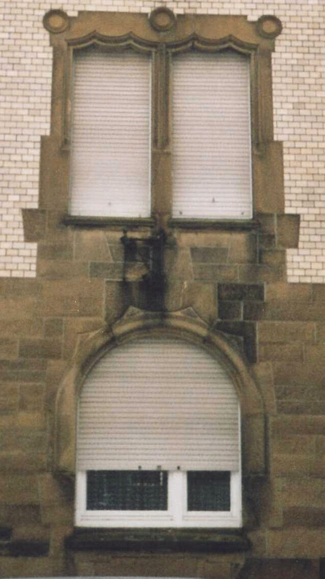 Heilbronn